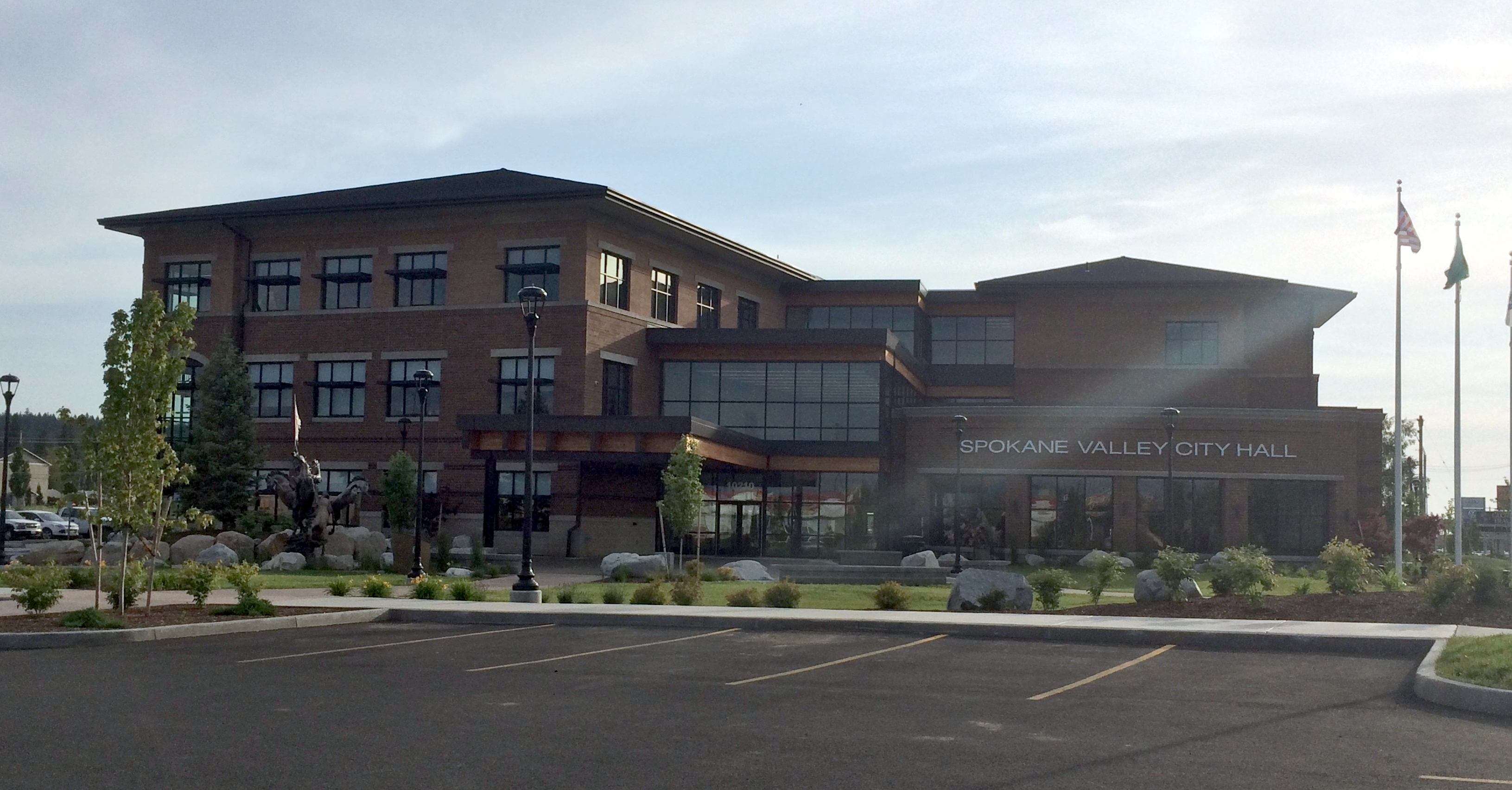 The Spokane Valley City Hall